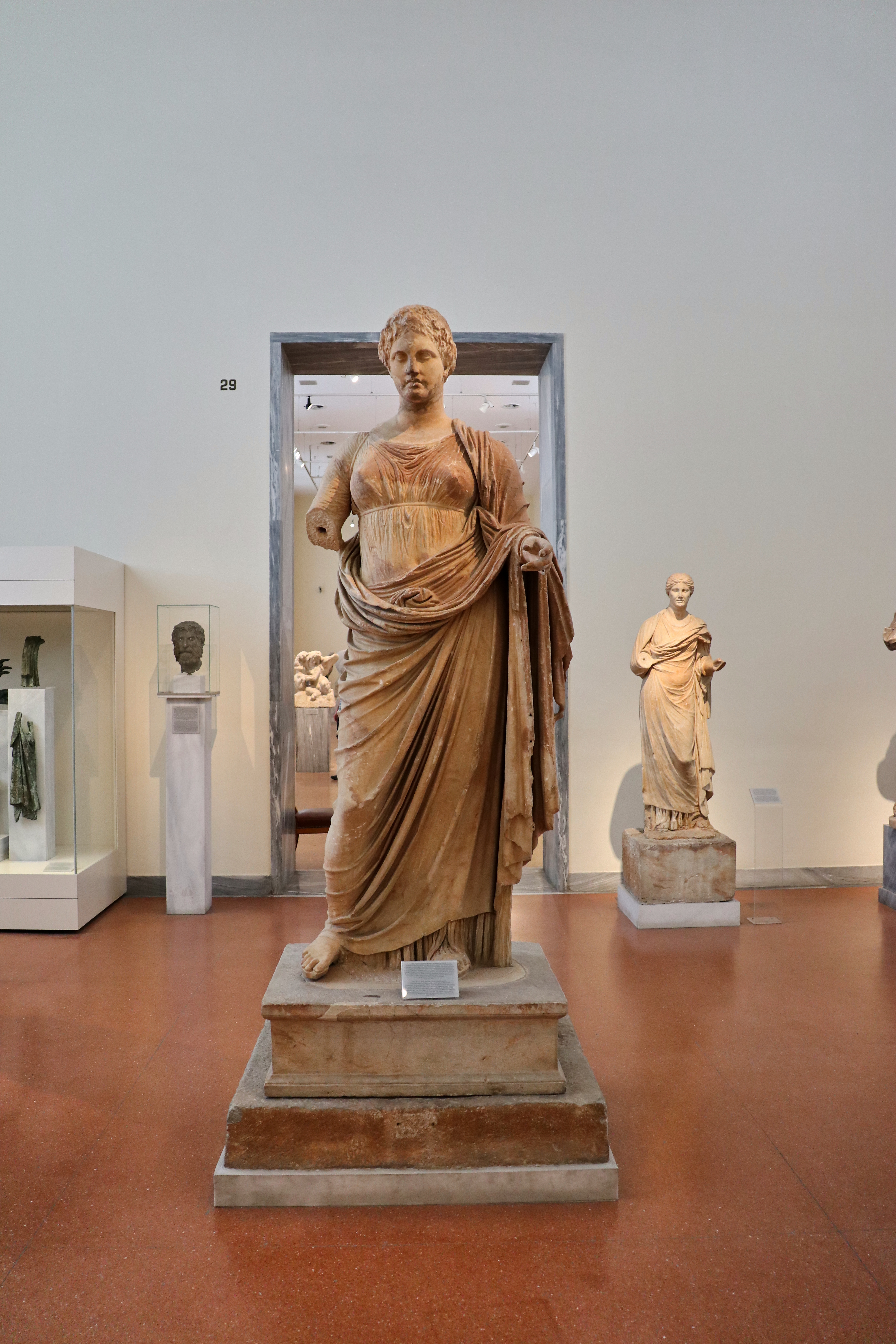 Statue of the goddess Themis. Pentelic marble. Found at Rhamnous, Attica, in the small temple of Nemesis. The goddess wears a high-girt chiton, richly draped himation and sandals. The head is inlaid and the right arm was made of a separate piece of marble. Themis, daughter of Uranus and Gaia, was goddess of justice and at Rhamnous she was worshipped in the same temple as Nemesis. According to the inscription on the front base, the statue was carved by Chaerestratus of Rhamnous and was dedicated to Themis by Megacles. About 300 B.C. Accession number: 231. National Archaeological Museum of Athens. Athens, Greece. Source: Museum inscription.